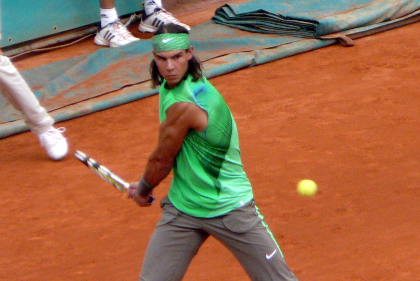 Rafael Nadal against Nicolás Almagro in the 2008 French Open quarterfinals